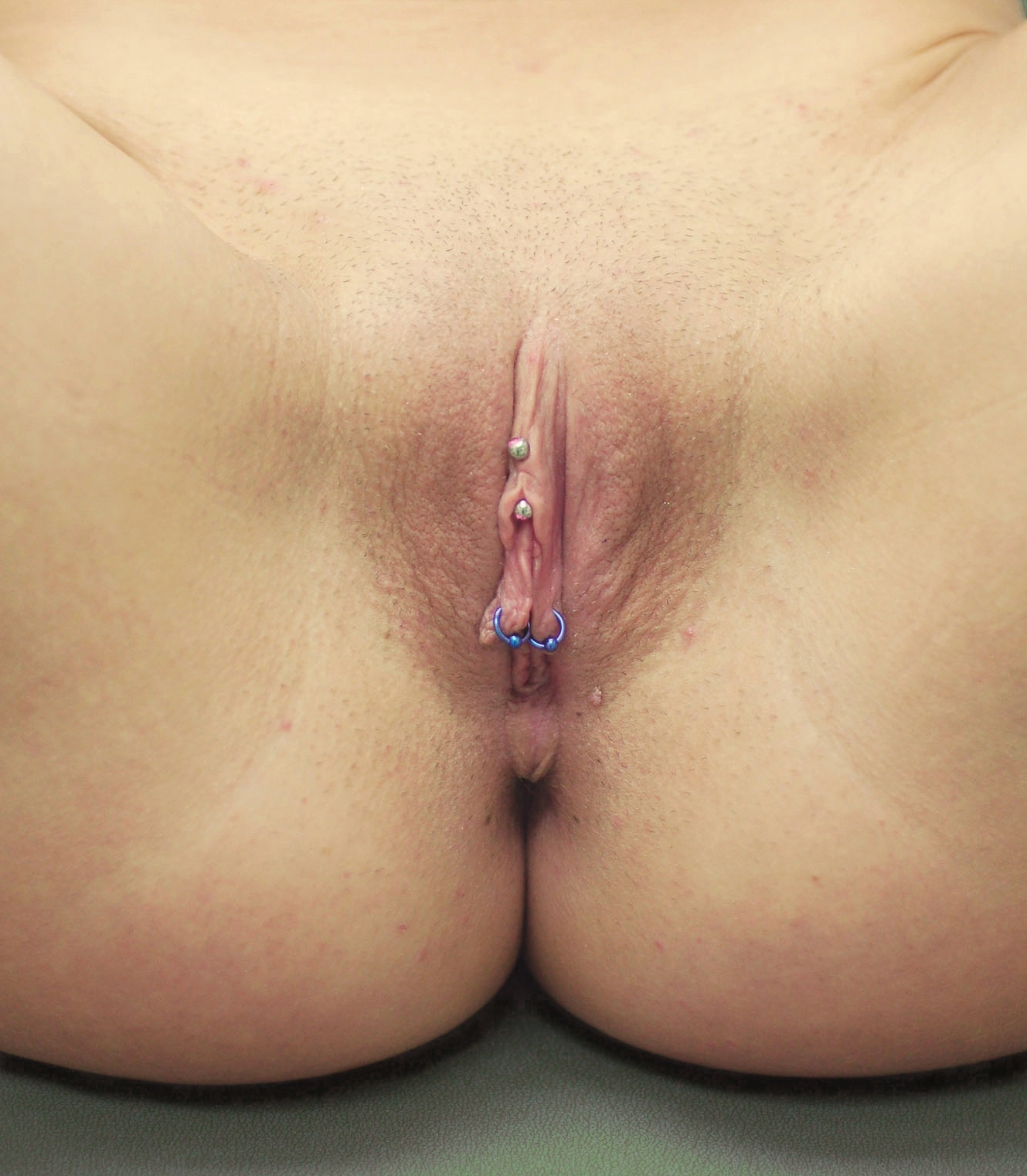 Labia minora and clit hood piercing, by Tommy T's Body Piercing, Huntington Beach, California